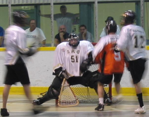 This is a picture of myself playing lacrosse, I release it on wikipedia under GFDL license.